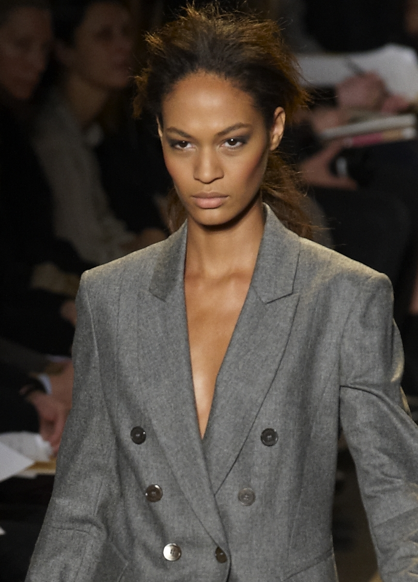 A model walks the runway at the Michael Kors Fall/Winter 2010 show at New York Fashion Week, February 2010.